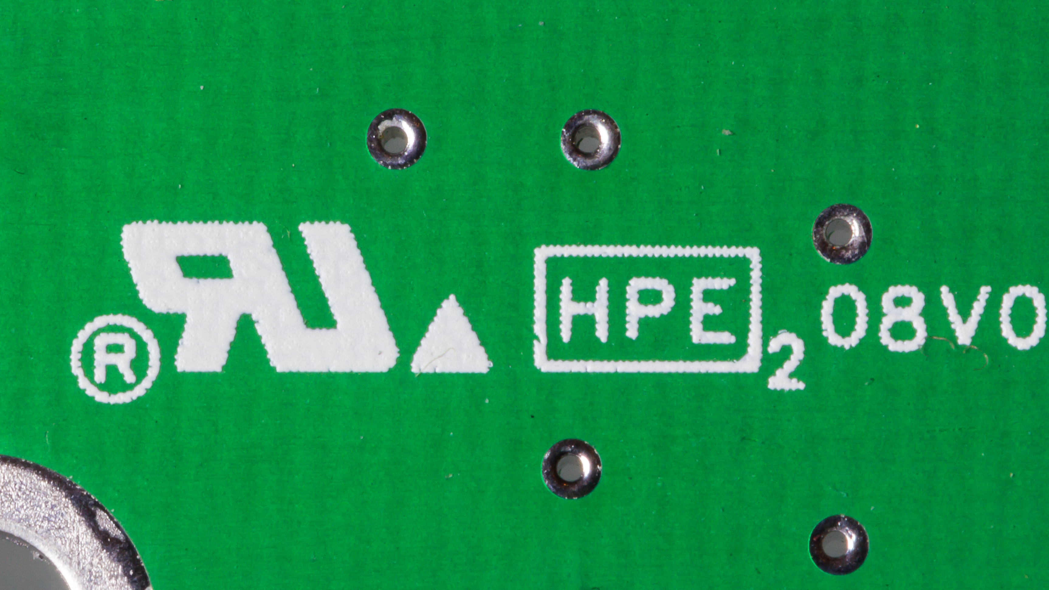 Recognized Component Mark of Underwriters Laboratories on a printed circuit board